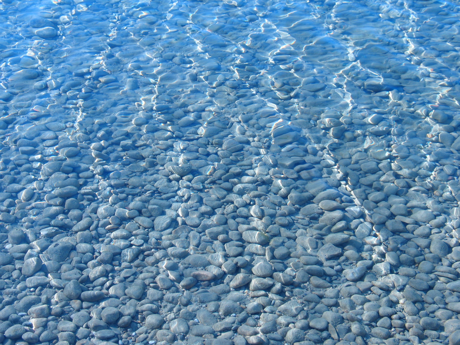 Water 008/1. Nrf: Nou n'a rein sans peine, pas même l'ieau d'la fontaine.